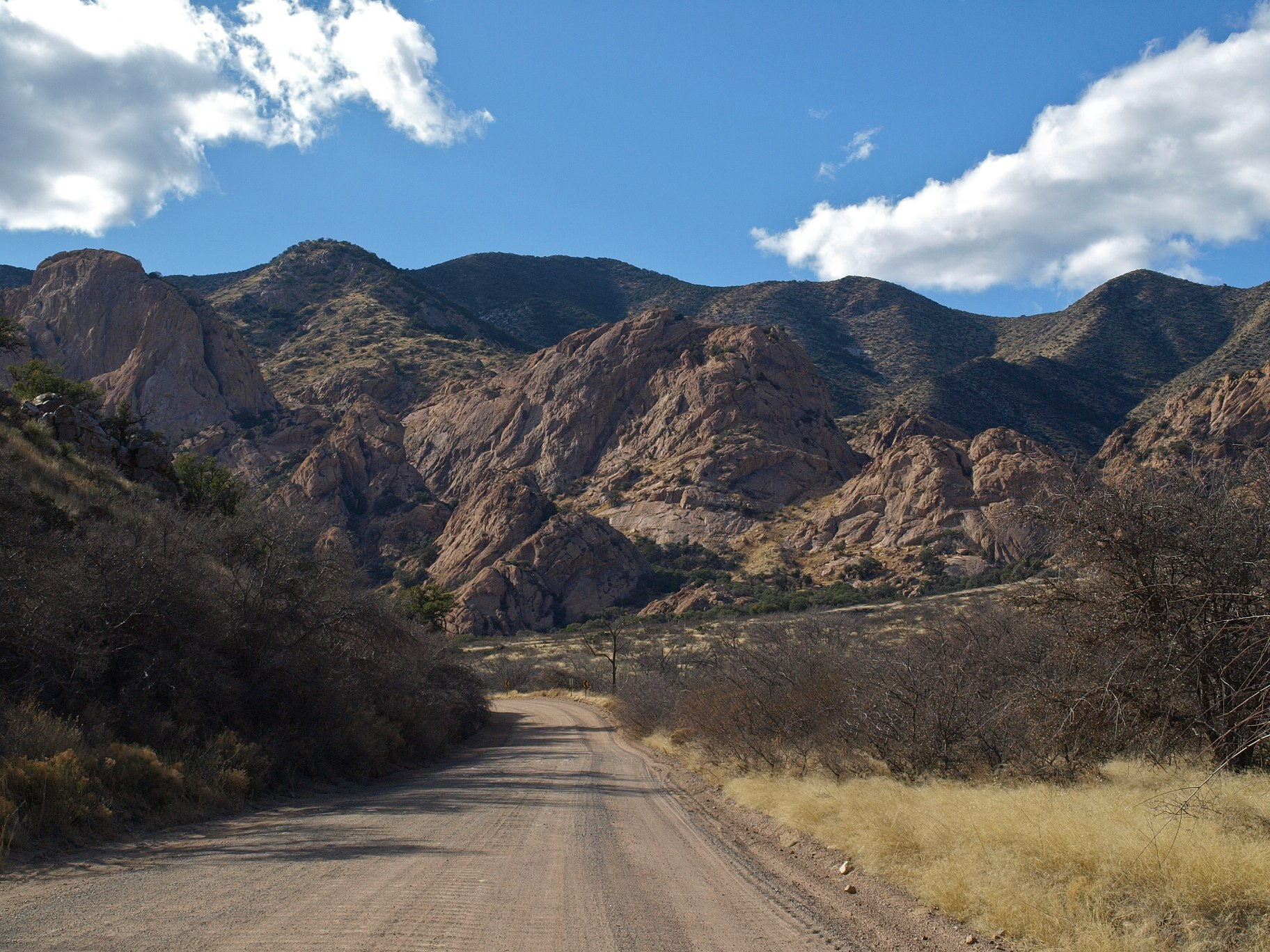 Eastern entrance to Cochise Stronghold in the Dragoon Mountains, Arizona.